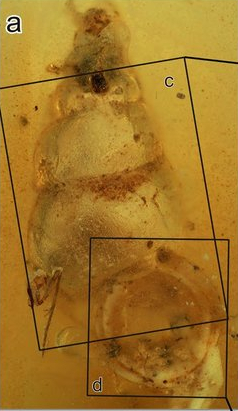 Schistoloma electrothauma Asato and Hirano, sp. nov. from mid-Cretaceous Burmese amber. Holotype NMNS PM 27993. (a) Apertural view.